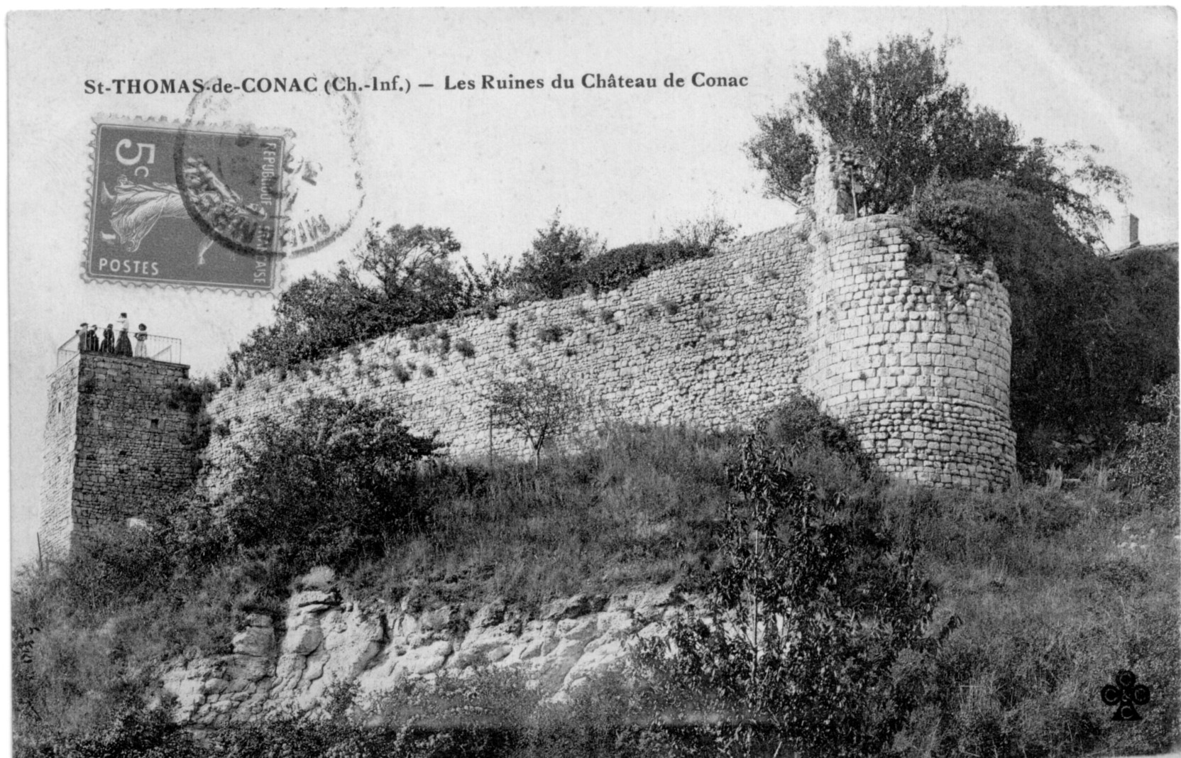 Old Castle of St Thomas de conac